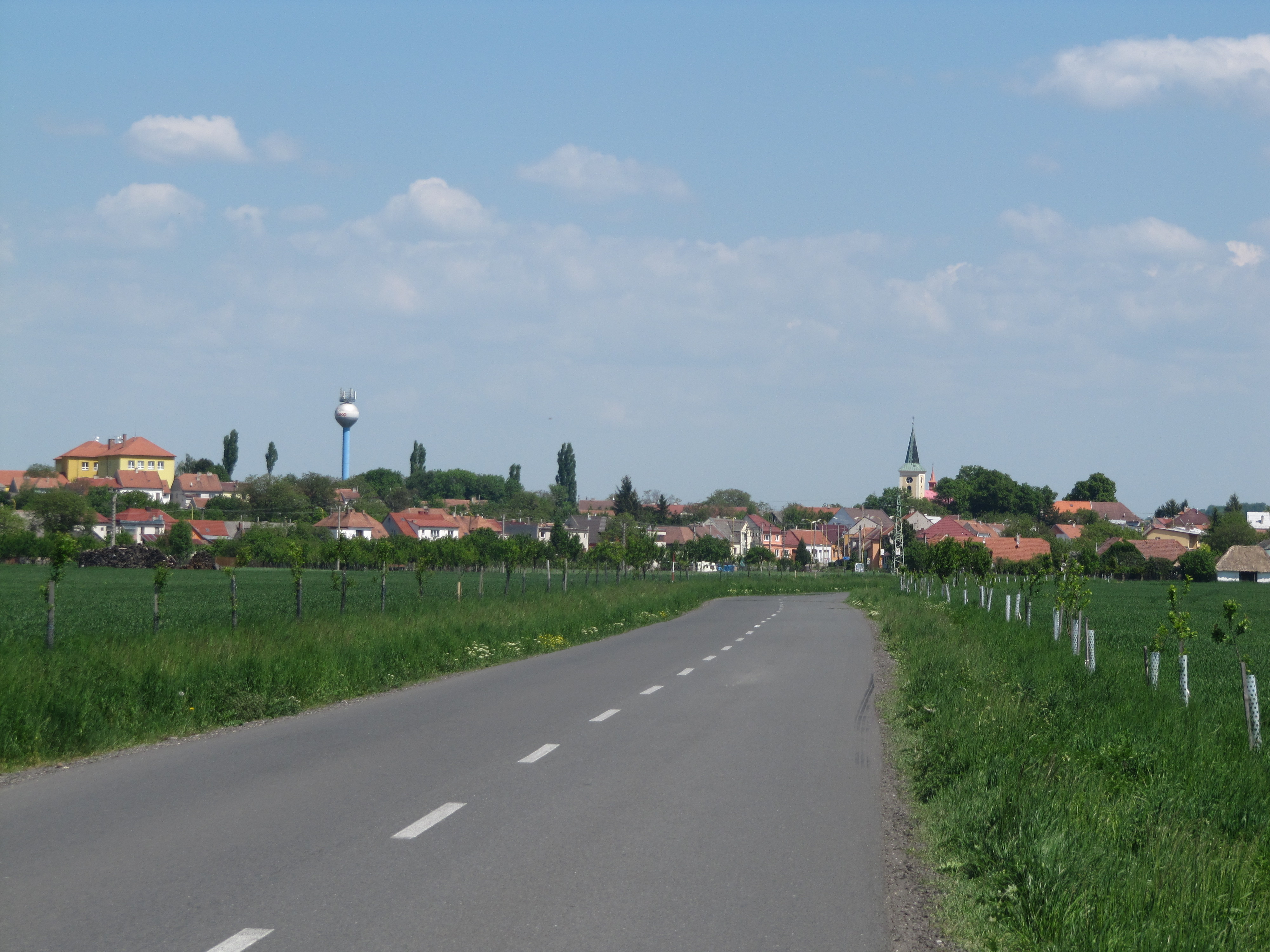 Hroznová Lhota in Hodonín District, Czech Republic. General view.